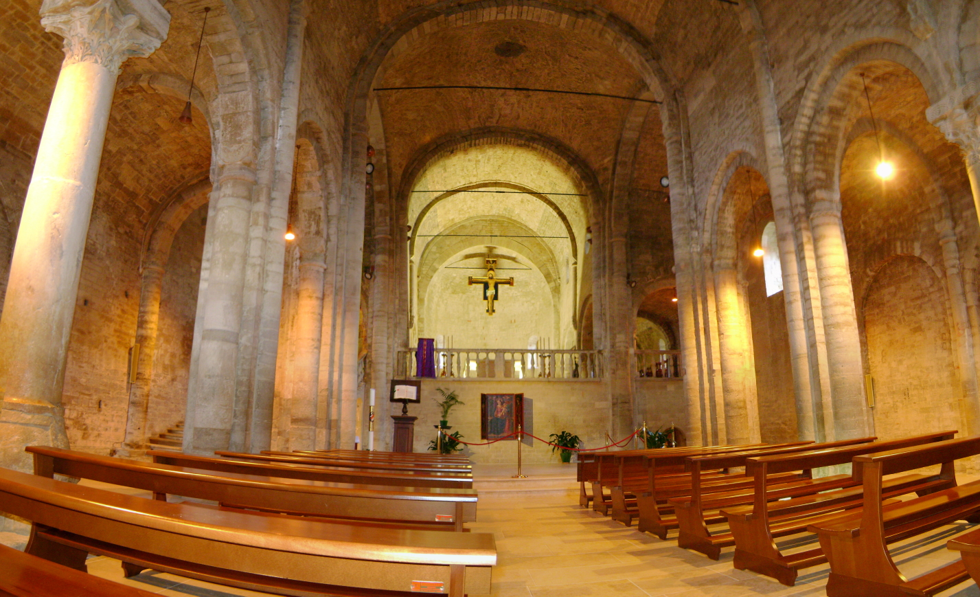 The interior of the Cathedral of St. Leone, in province of Rimini, Emilia-Romagna